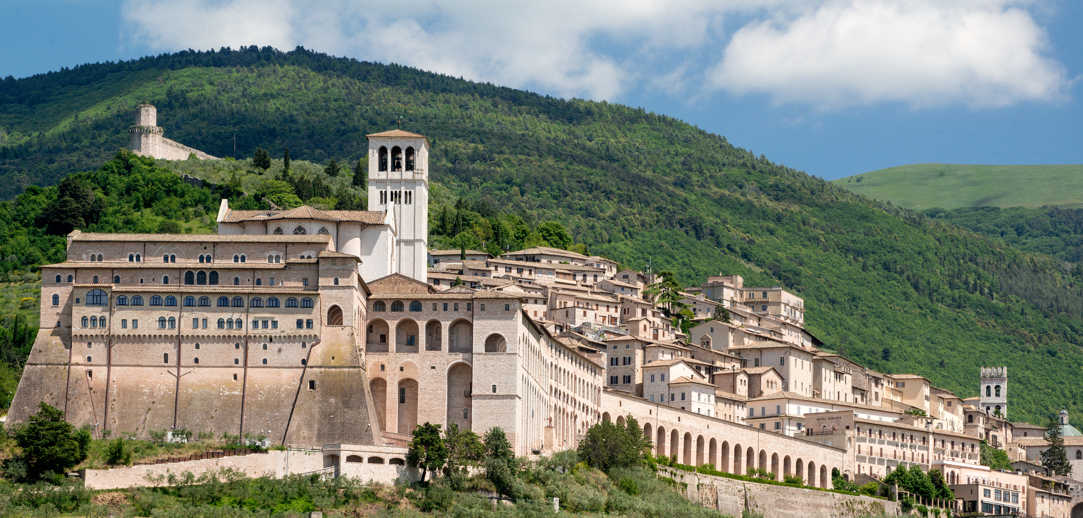 Papal Basilica of Saint Francis of Assisi from below